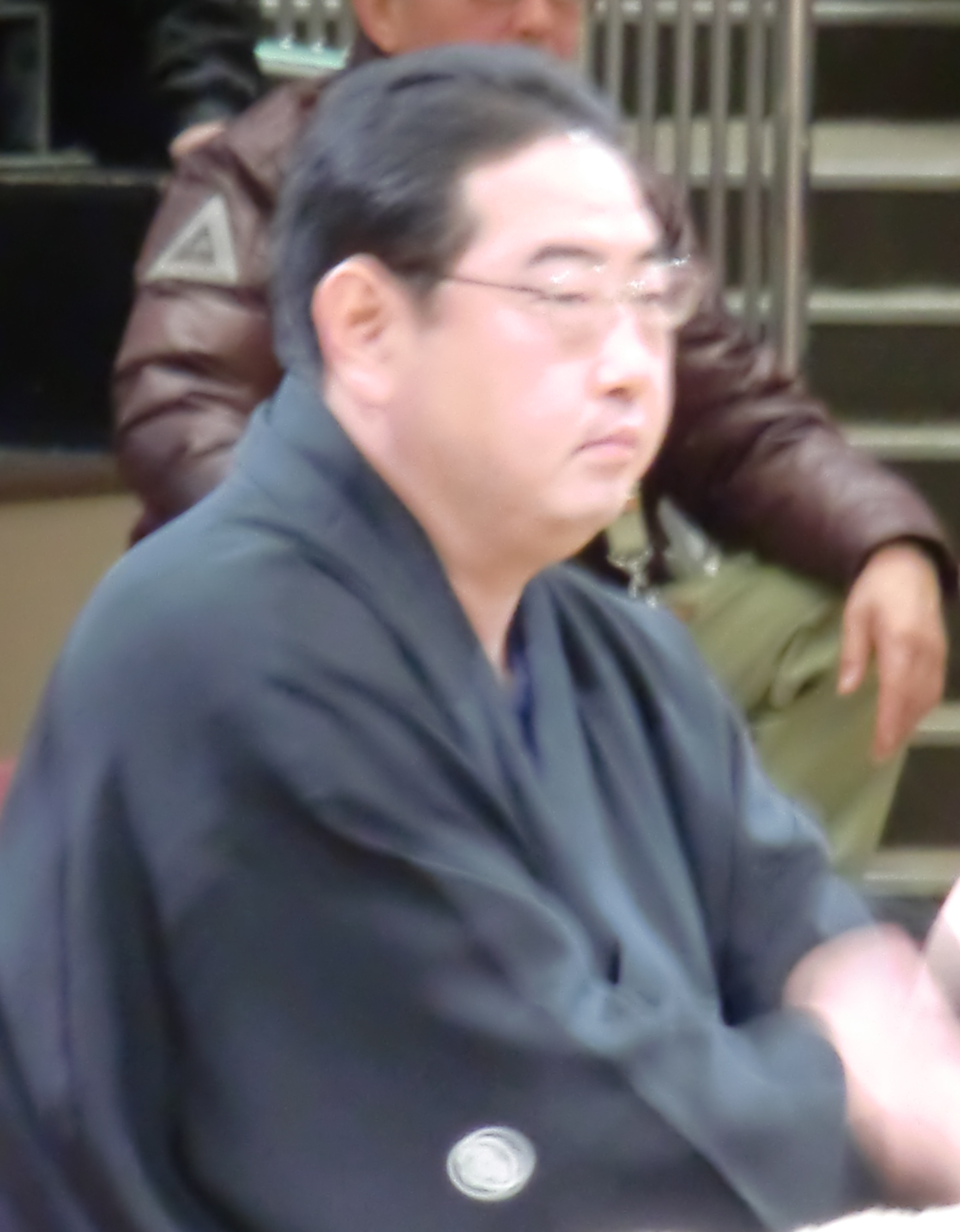 taken at Jan 2010 tournament